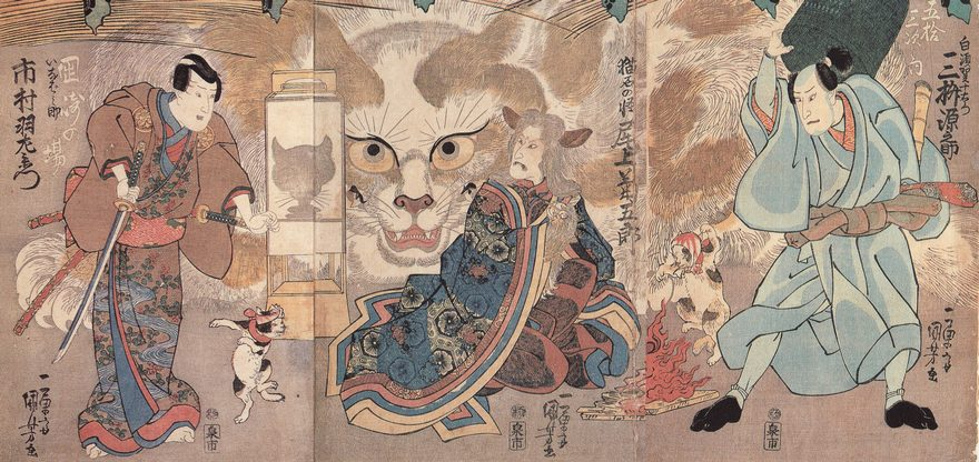 Ume no haru gojūsantsugi (梅初春五十三駅), art of Bakeneko (a shapeshifting cat)